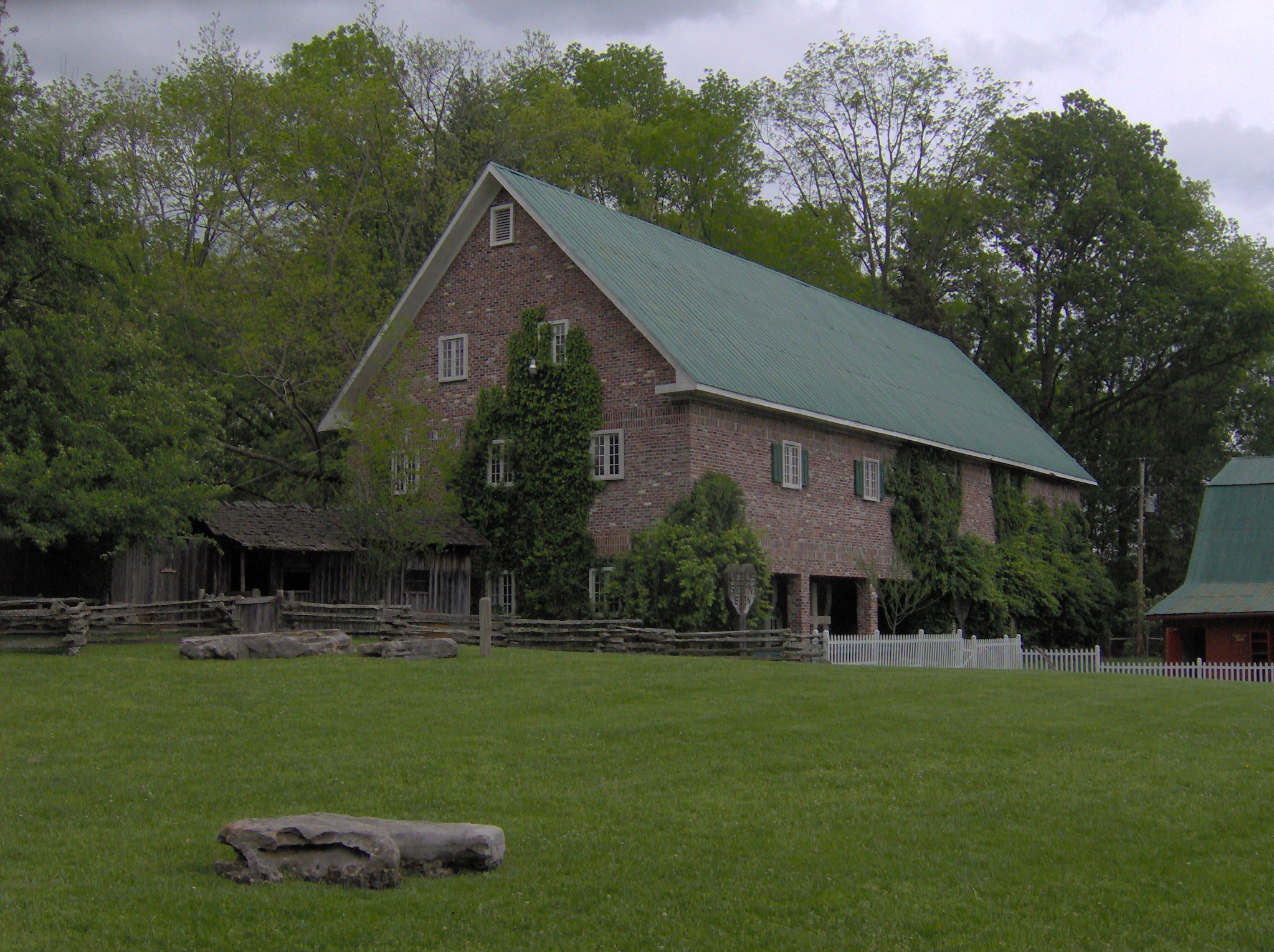 The People's Building at the Museum of Appalachia in Norris, Tennessee, USA. This building, built of old hand-made bricks, houses an exhibit of cross maker Harrison Mayes and a collection by folk artist James Bunch.